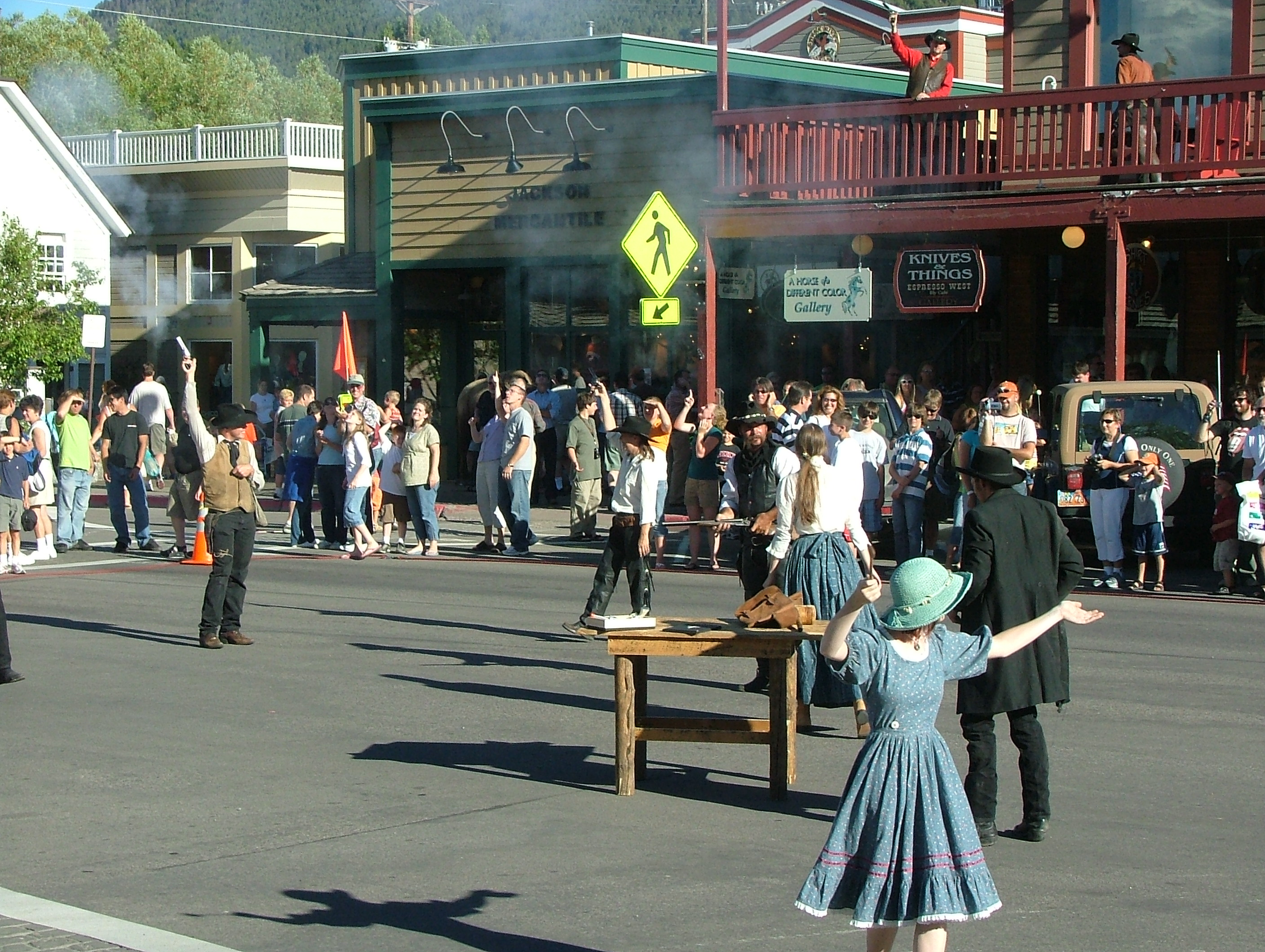 Gun smoke over town square, Jackson, Wyoming.